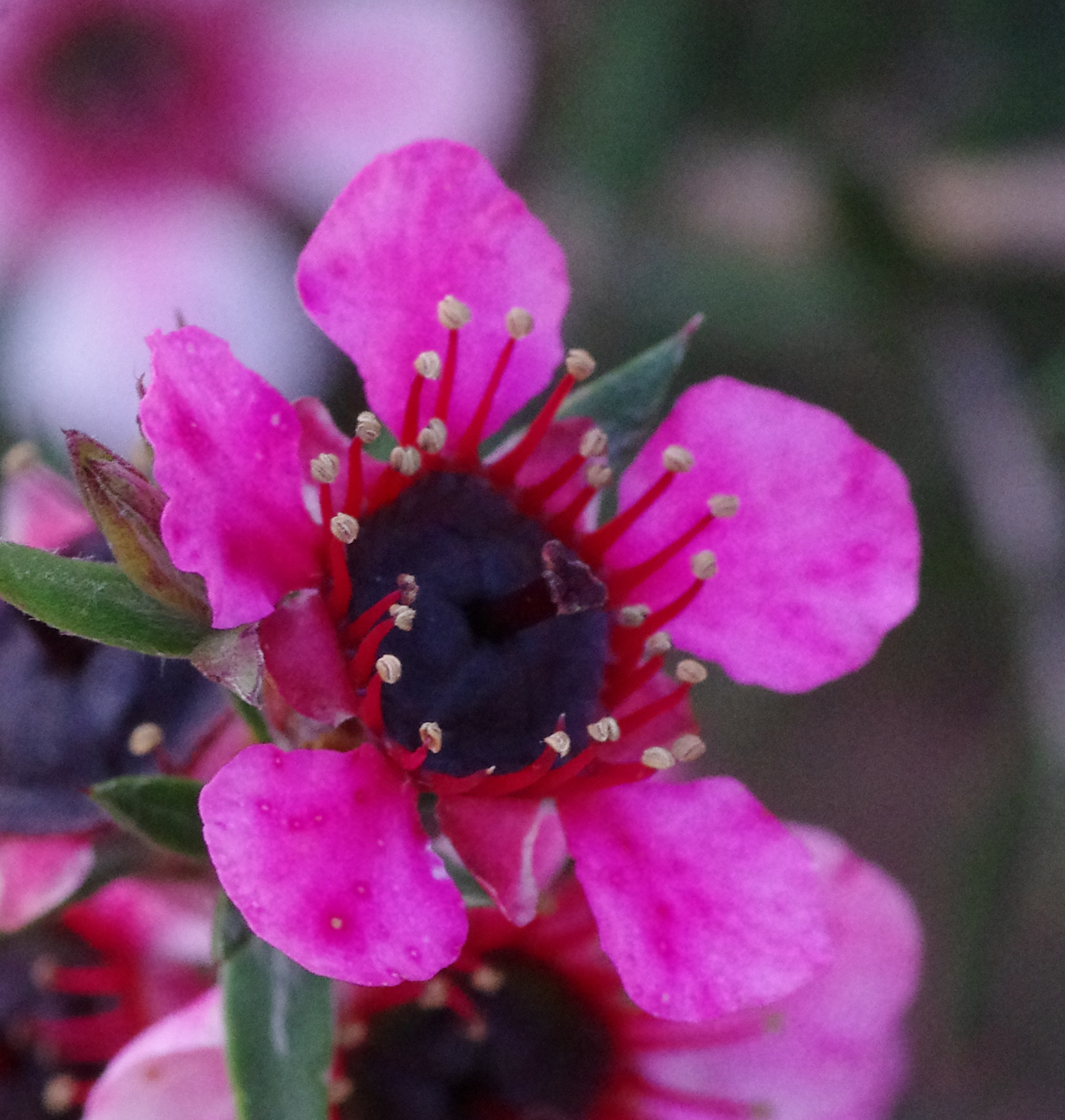 Leptospermum scoparium at the ÖBG Bayreuth